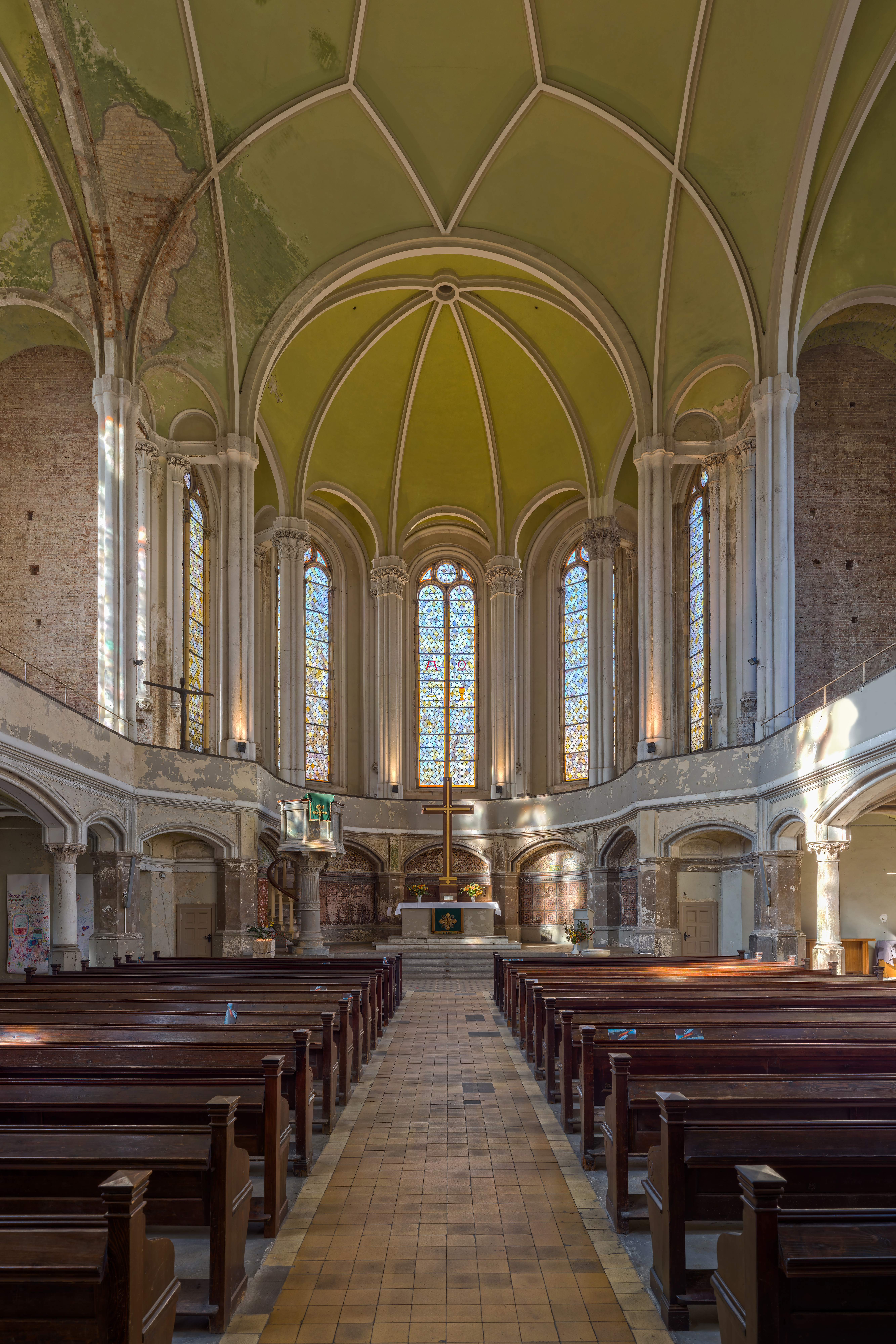 Nave of the Zionskirche in Berlin-Mitte.